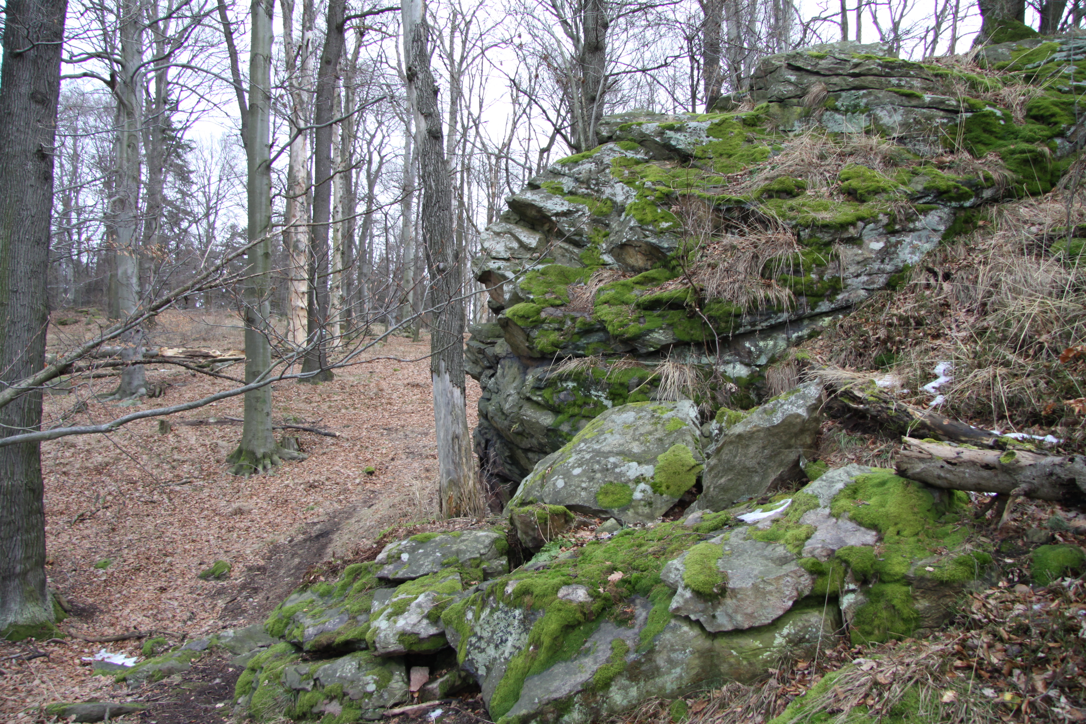 Natural reservation Skočický hrad near Skočice, Strakonice District, Czech Republic - Google Maps - Google Earth